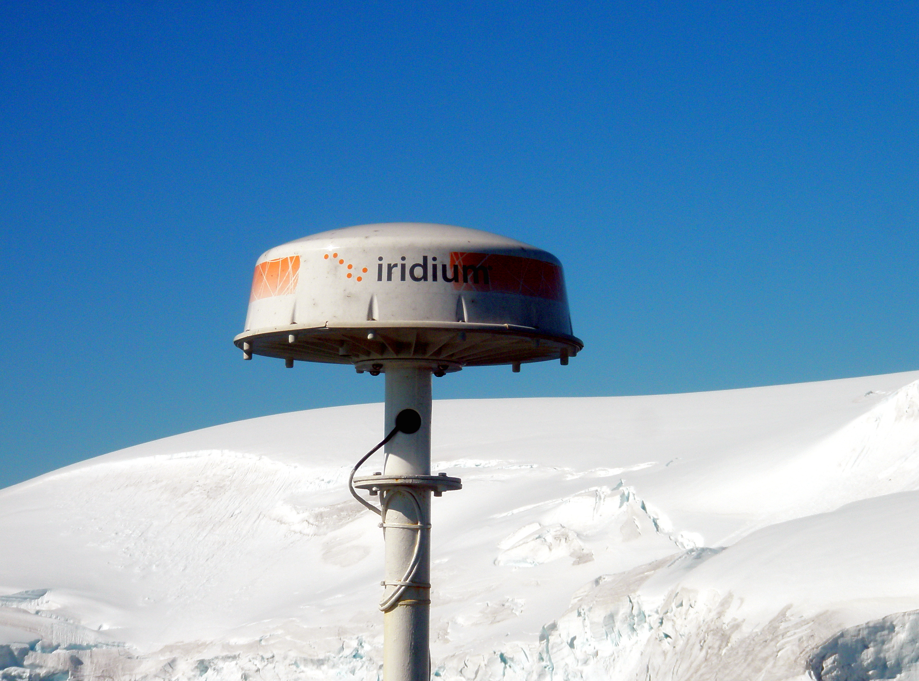 An iridium antenna installed on the upper deck of M/V Lyubov Orlova polar vessel. In the background you can see one of the islands that surround the Antarctic Penninsula.